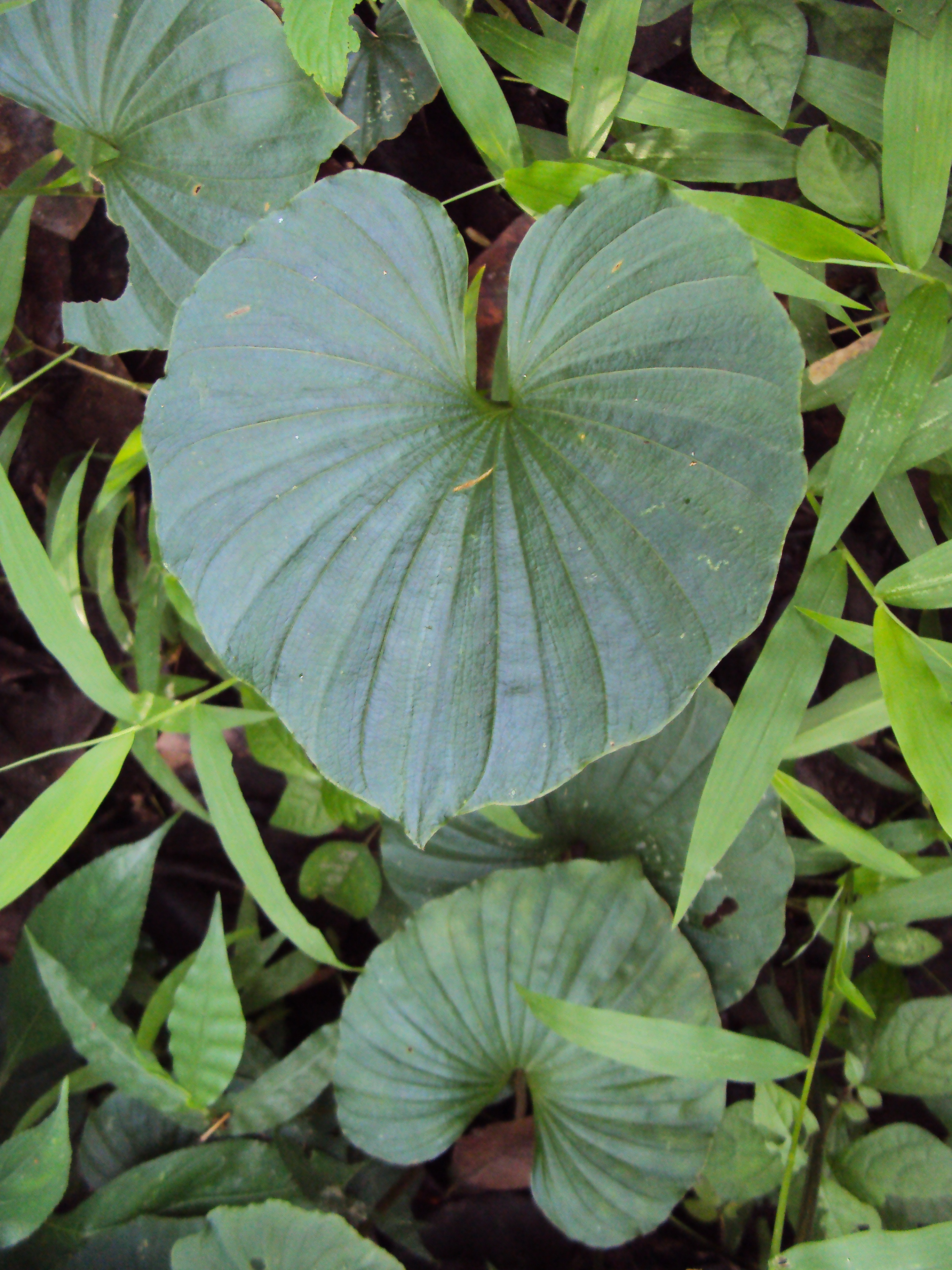 Nervilia aragoana